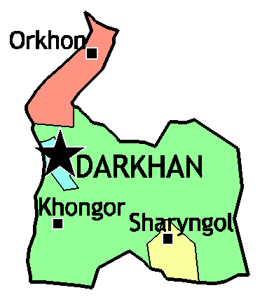 Map of the Darkhan Uul aimag with the sums